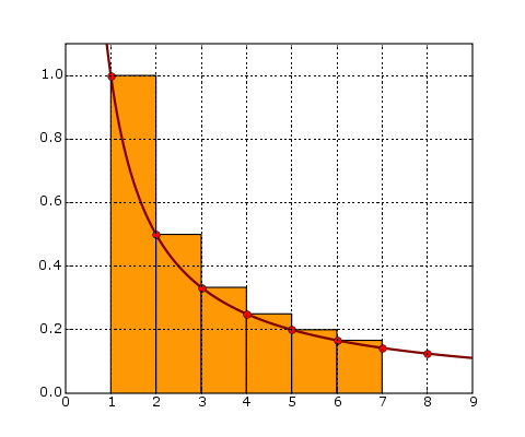 Plot of 1/x and harmonic numbers.